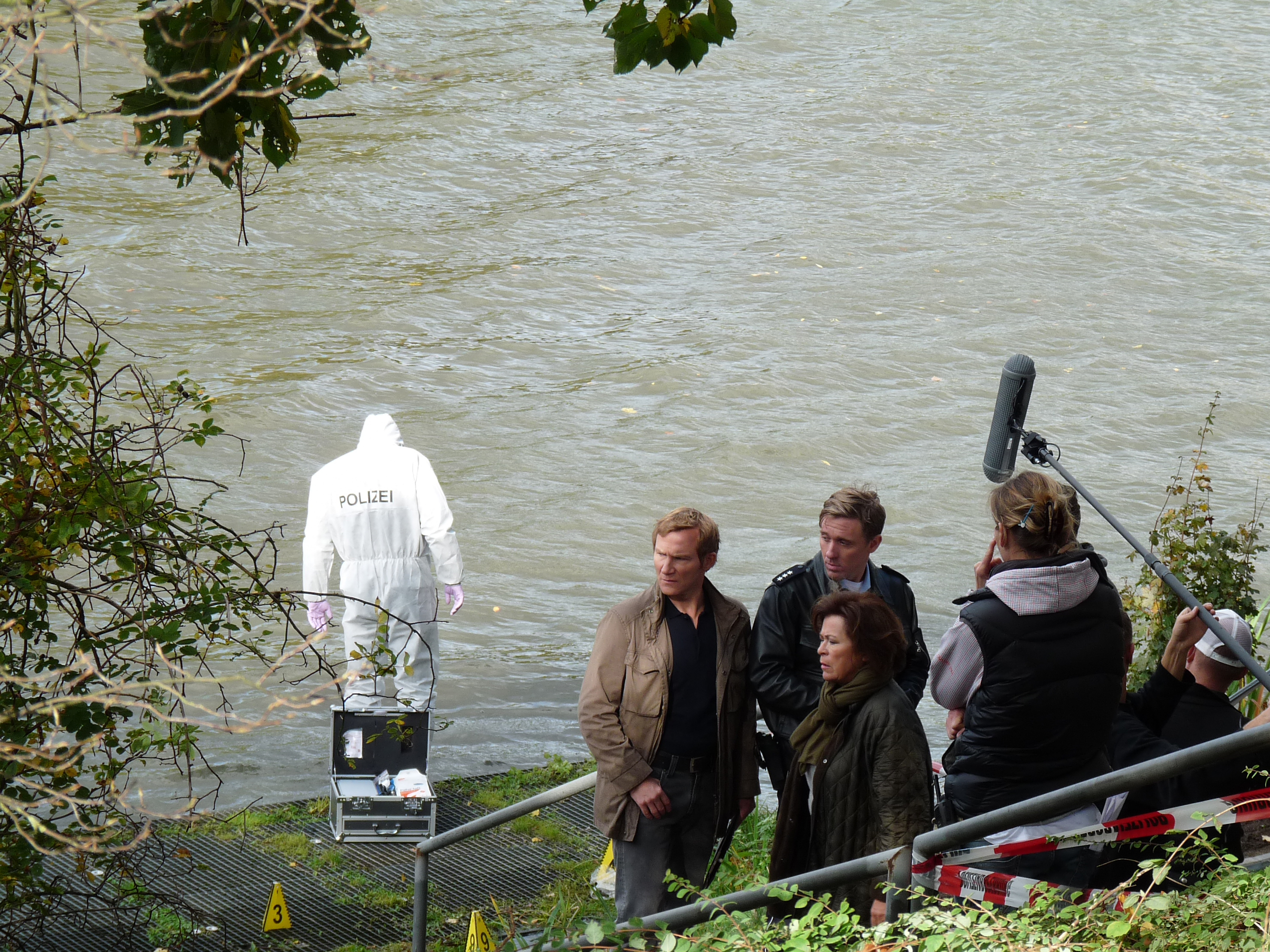 shooting of episode Das Geld der Anderen of TV series Wilsberg